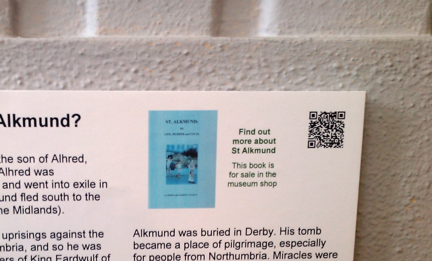 QRpedia code St Alkmund Derby Museum